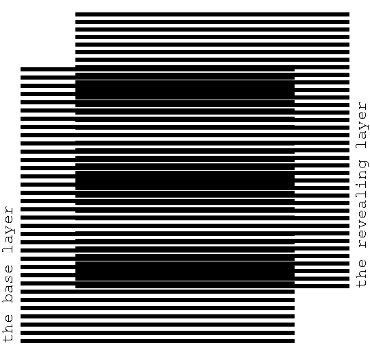 Emin Gabrielyan